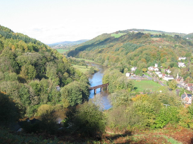 Redbrook from Highbury Woods